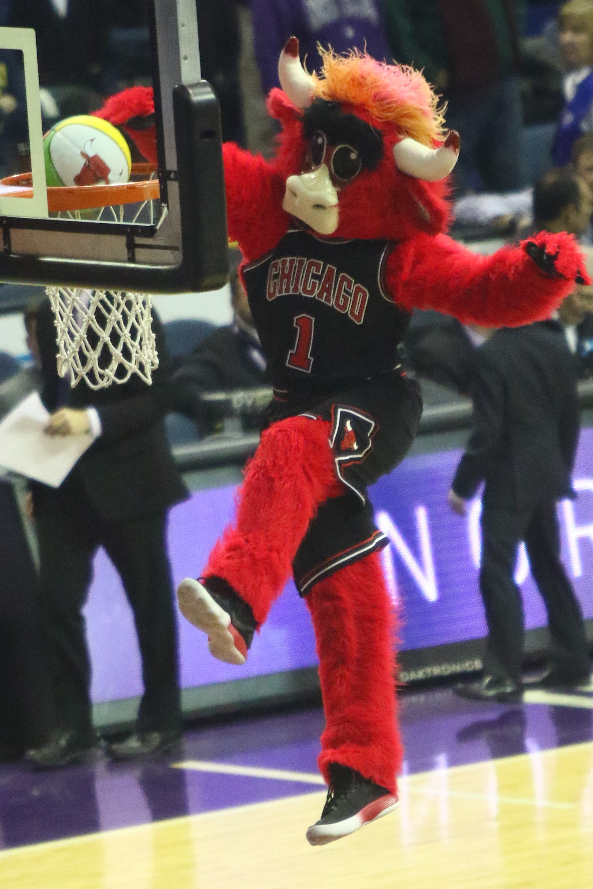 Benny the Bull at a game between the w:2017–18 Michigan Wolverines men's basketball team and the w:2017–18 Northwestern Wildcats men's basketball team at Allstate Arena